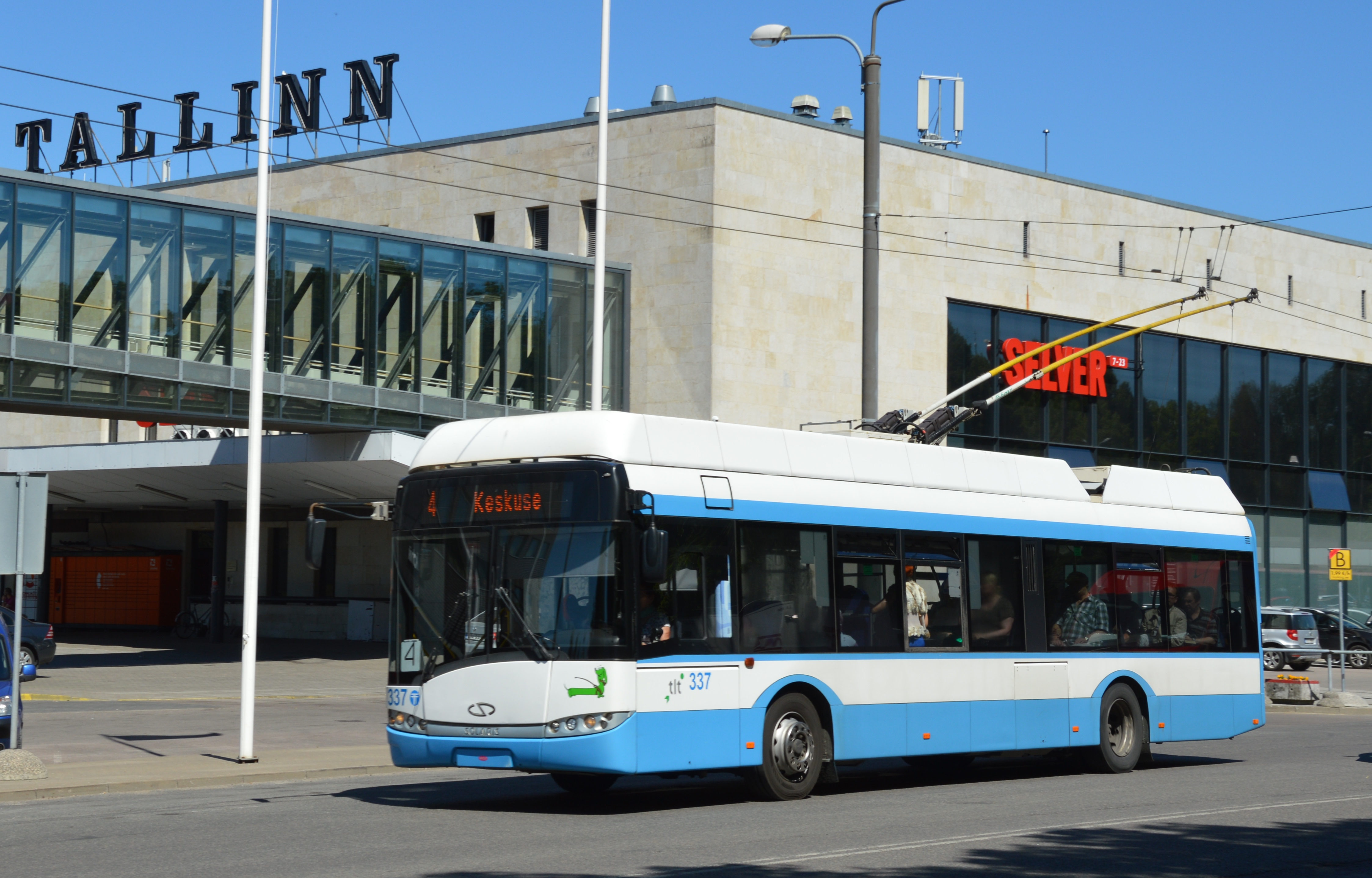 Solaris Trollino 12 trolleybus in Tallinn, in front of the Baltic railway station (Balti jaam)